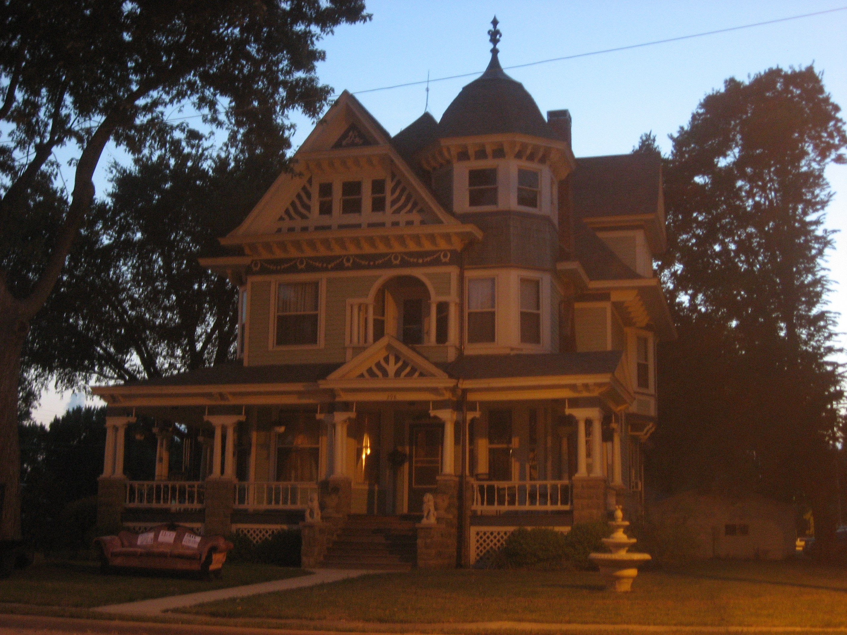 Front and northern side of the James C. Twiss House, located at 298 N. Page Street in Aviston, Illinois, United States. Built in 1907 to a George Franklin Barber design, it is listed on the National Register of Historic Places. The EXIF information is slightly wrong: the camera was still set to Eastern Time when the photo was taken, so the correct time is actually 7:56 PM.